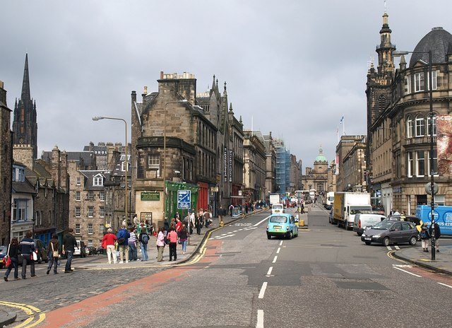 George IV Bridge, Edinburgh. Taken from the middle of the road beside the National Museum of Scotland, with Candlemaker Row dropping down on the left, and Chambers Street on the right. At the far end of George IV Bridge is 932207. As usual, there is a group clustered around that dog (637793).